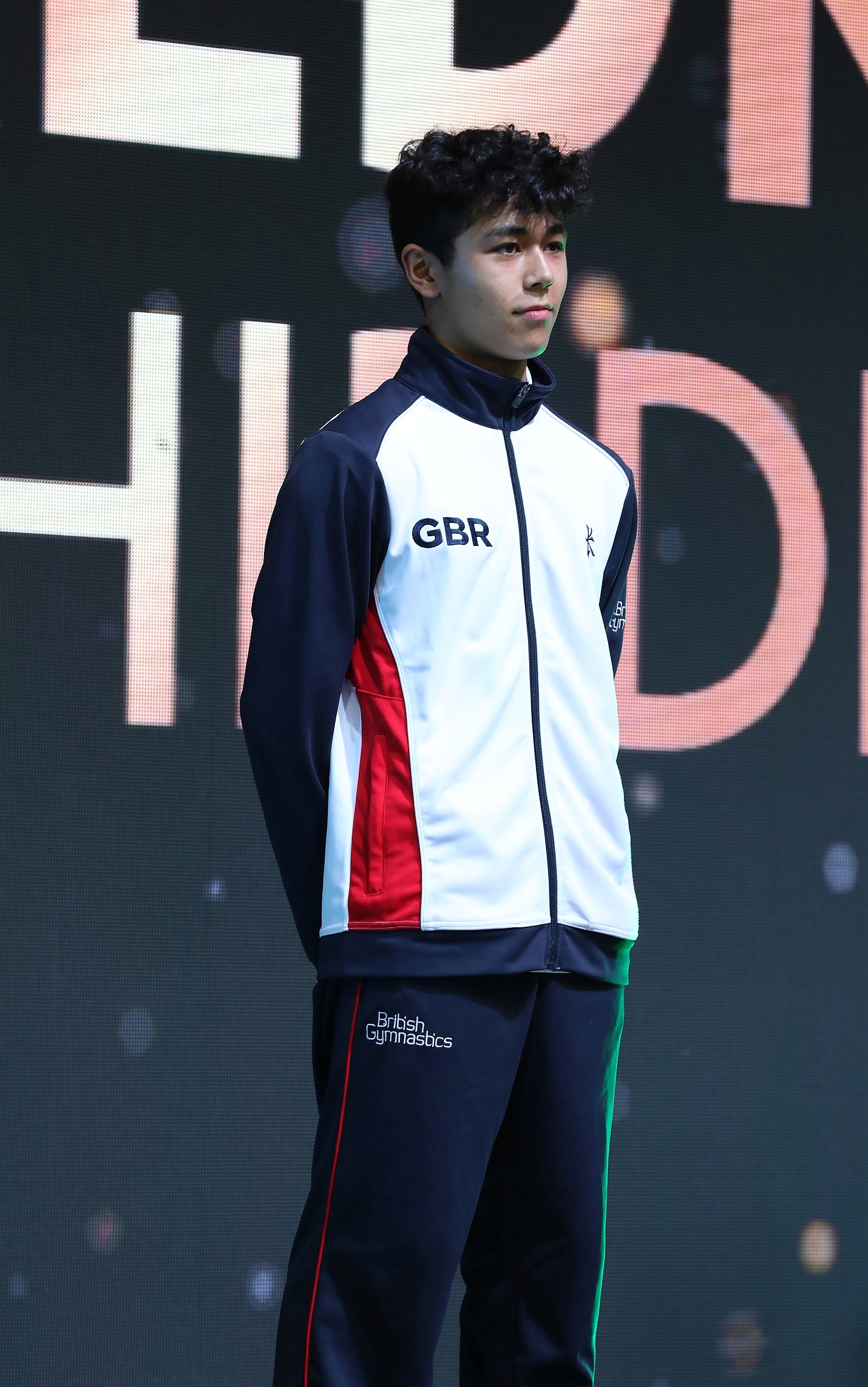 Vault victory ceremony during the boys' apparatus finals at the 1st FIG Artistic Gymnastics Junior World Championships on 30 June 2019 in Győr, Hungary. Depicted: Jasper Smith-Gordon.